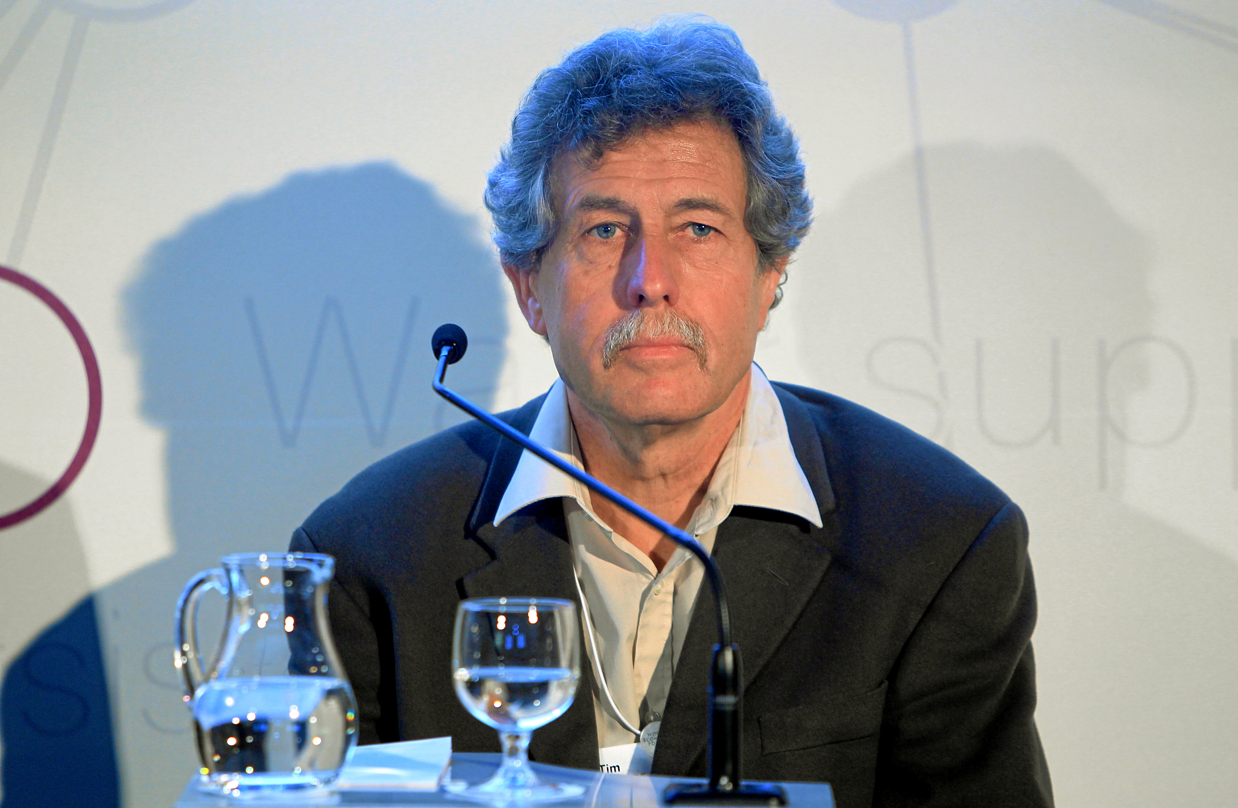 DAVOS/SWITZERLAND, 26JAN13 - Tim Palmer, Co-Director, Programme on Modelling and Predicting Climate, Oxford Martin School, United Kingdom, looks on during the session 'X Factors: Preparing for the Unknown' at the Annual Meeting 2013 of the World Economic Forum in Davos, Switzerland, January 26, 2013.. . Copyright by World Economic Forum. . Sebastian Derungs